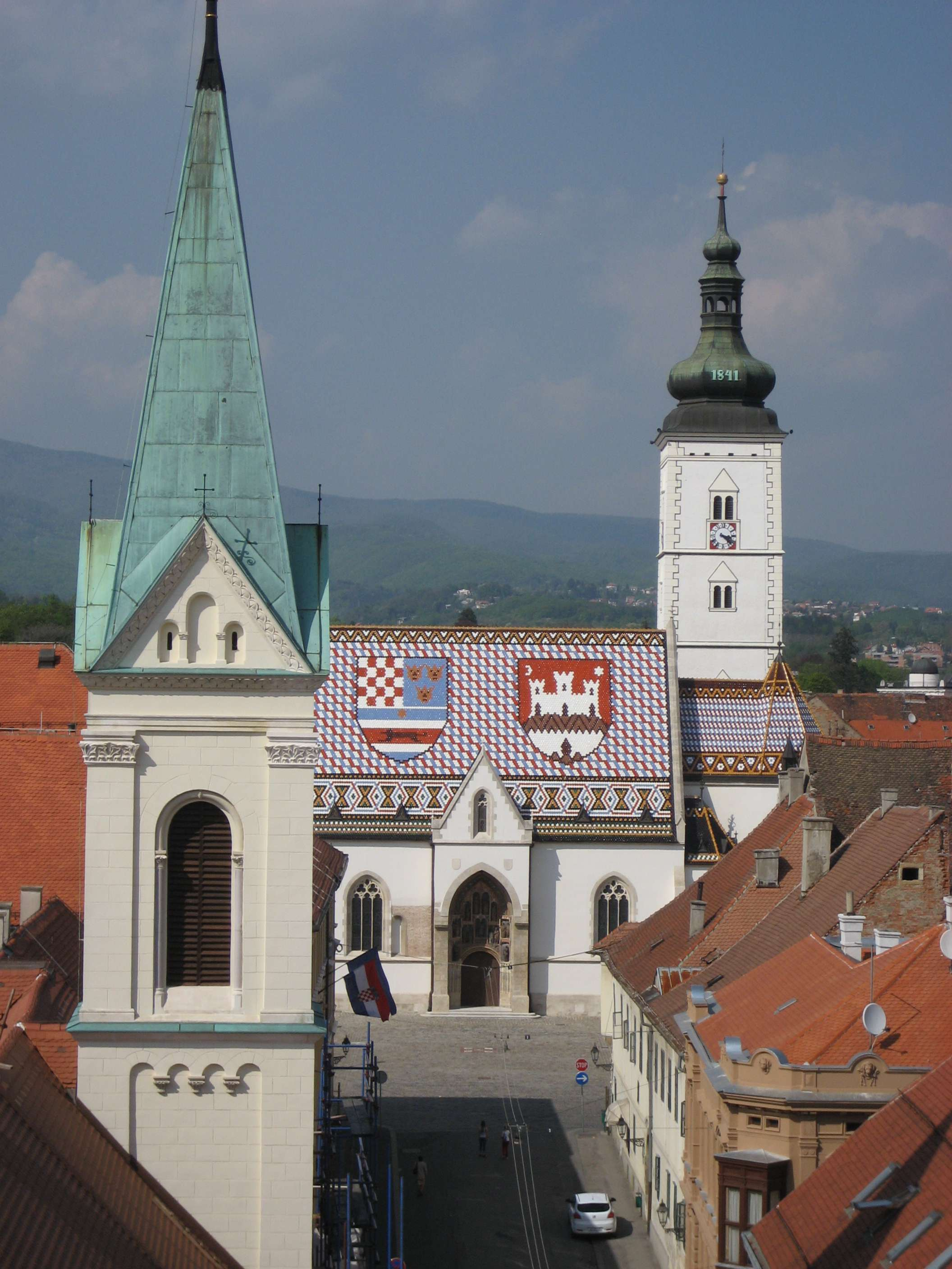 Crkva sv. Marka, Zagreb, Croatia